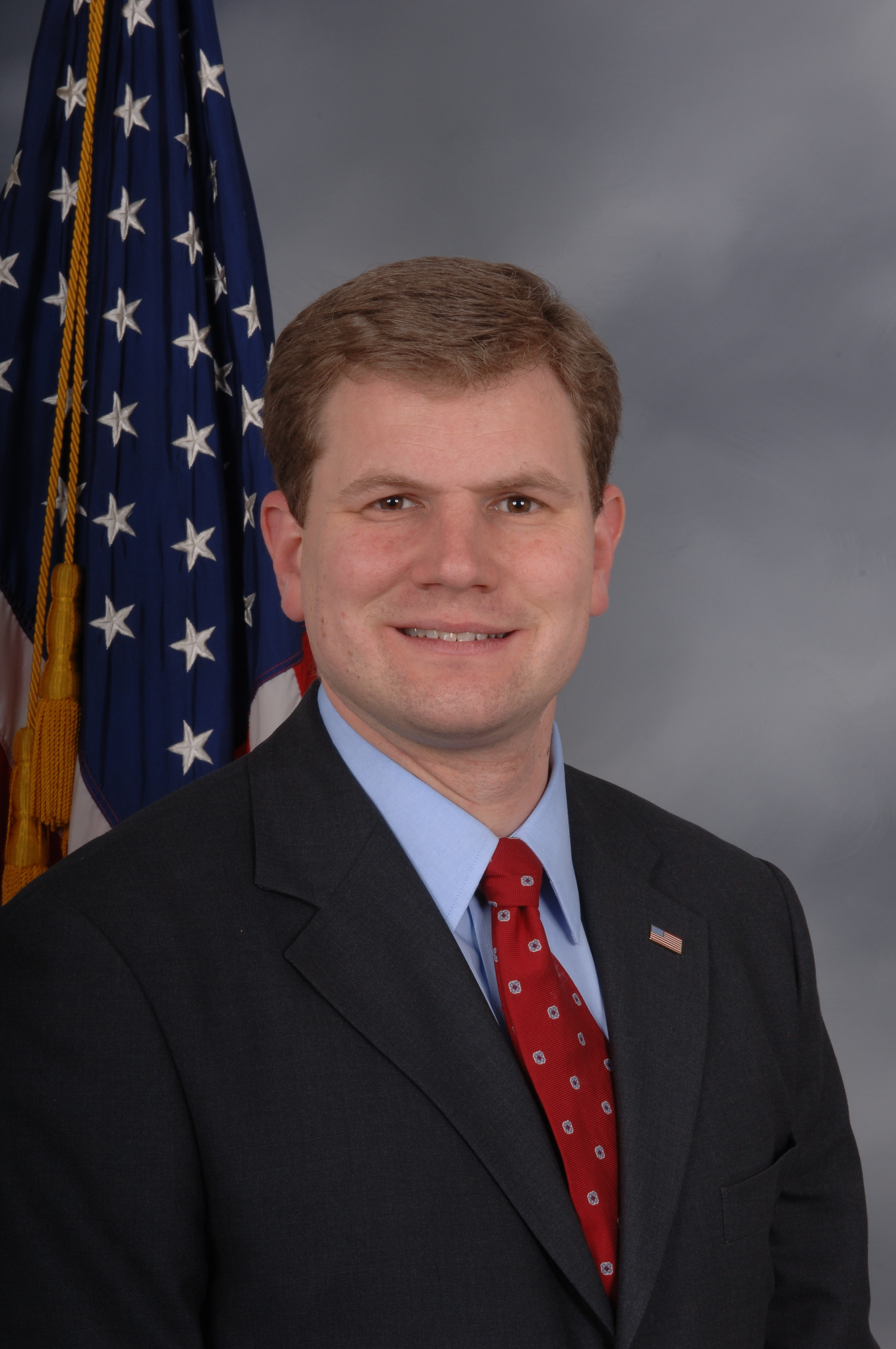 Dan Maffei, member of the United States House of Representatives.